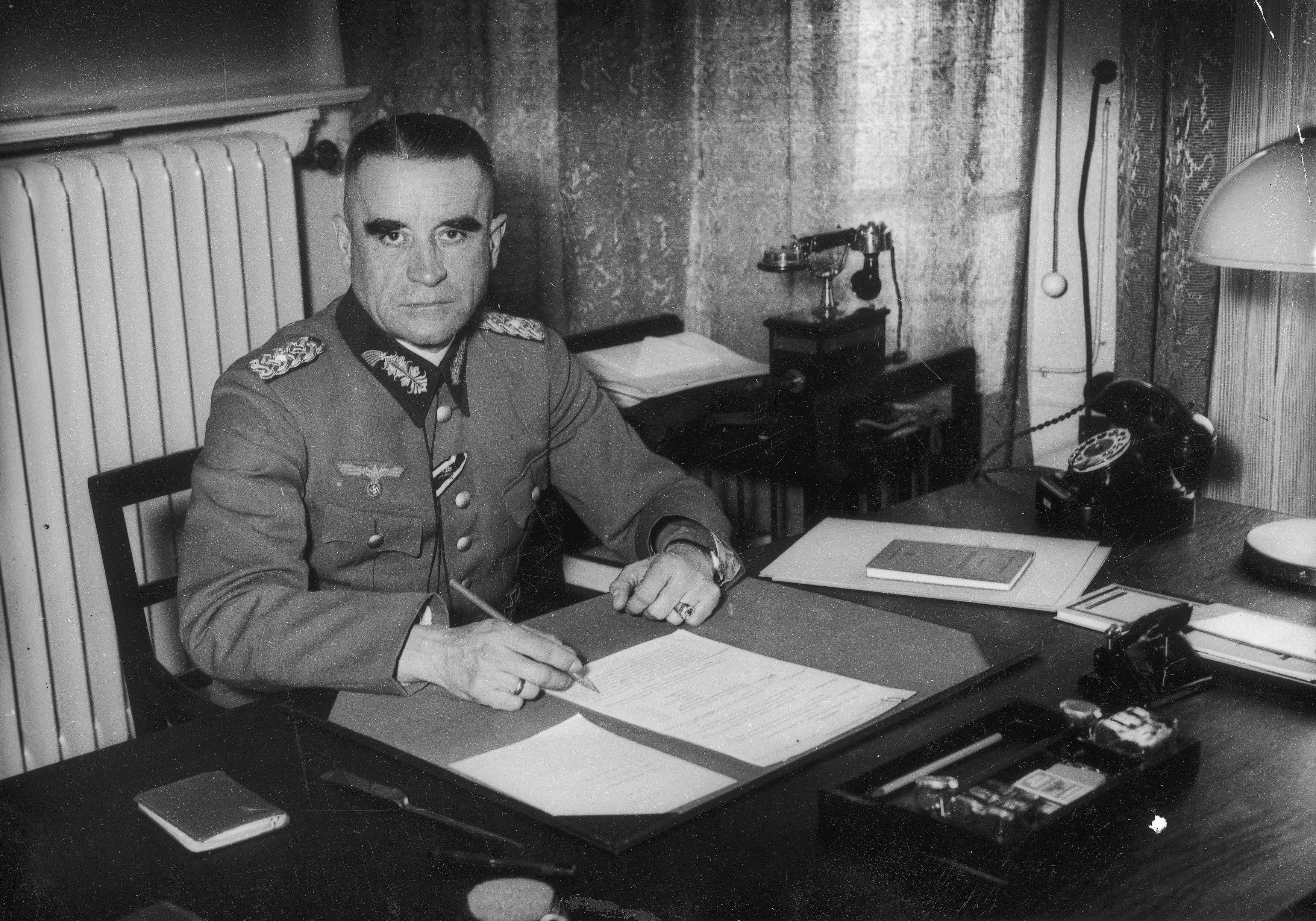 General Walter Heitz, President of the Reichskriegsgericht (Reich Military Court), working at a desk. 1936